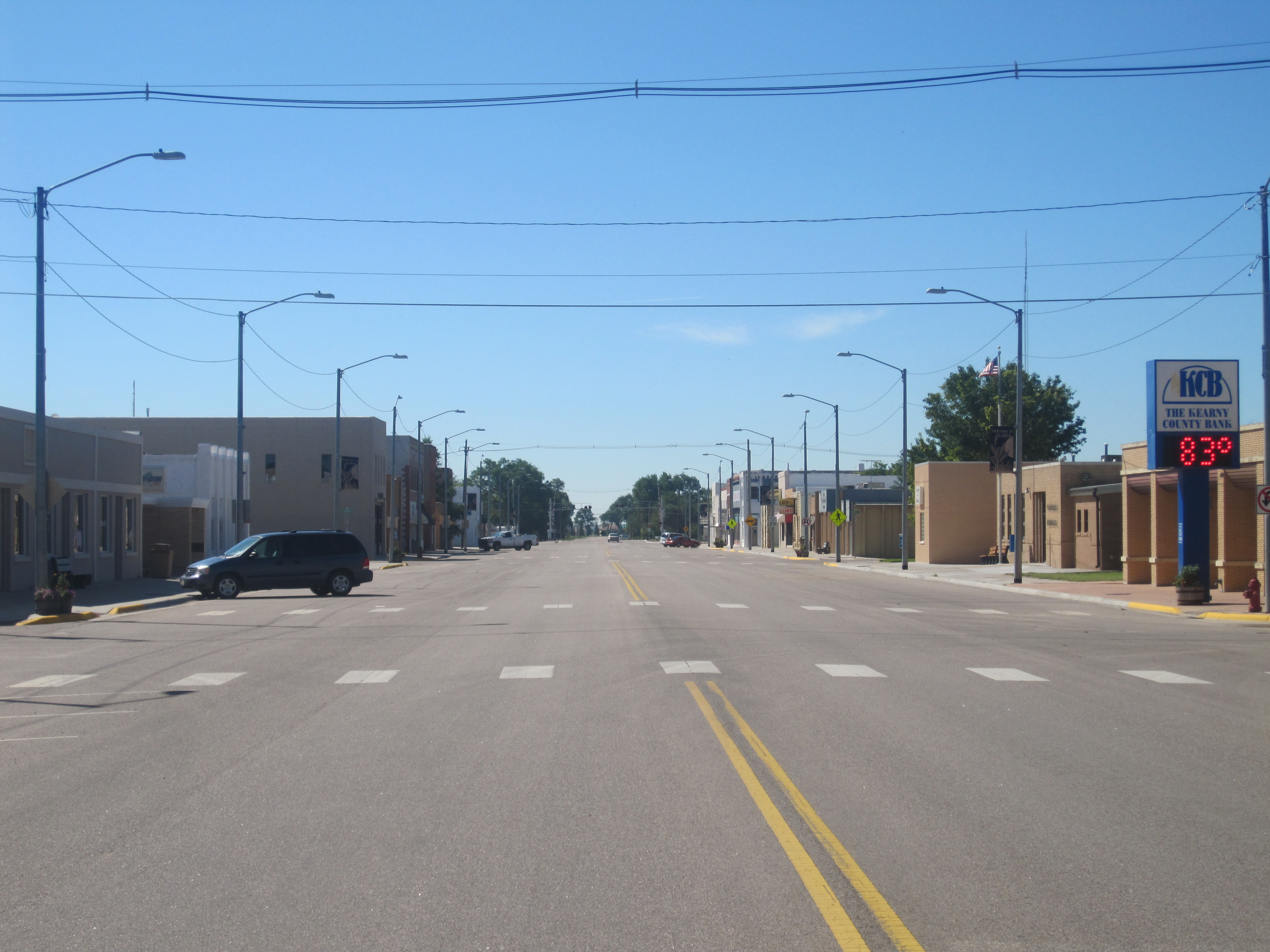 I took photo with Canon camera in Lakin, KS.